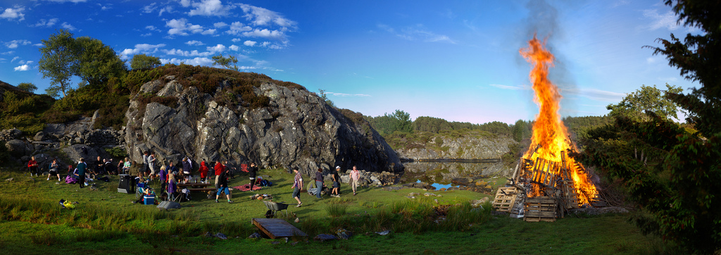 Midsummer celebration in Kalsund, Austevoll, Norway.